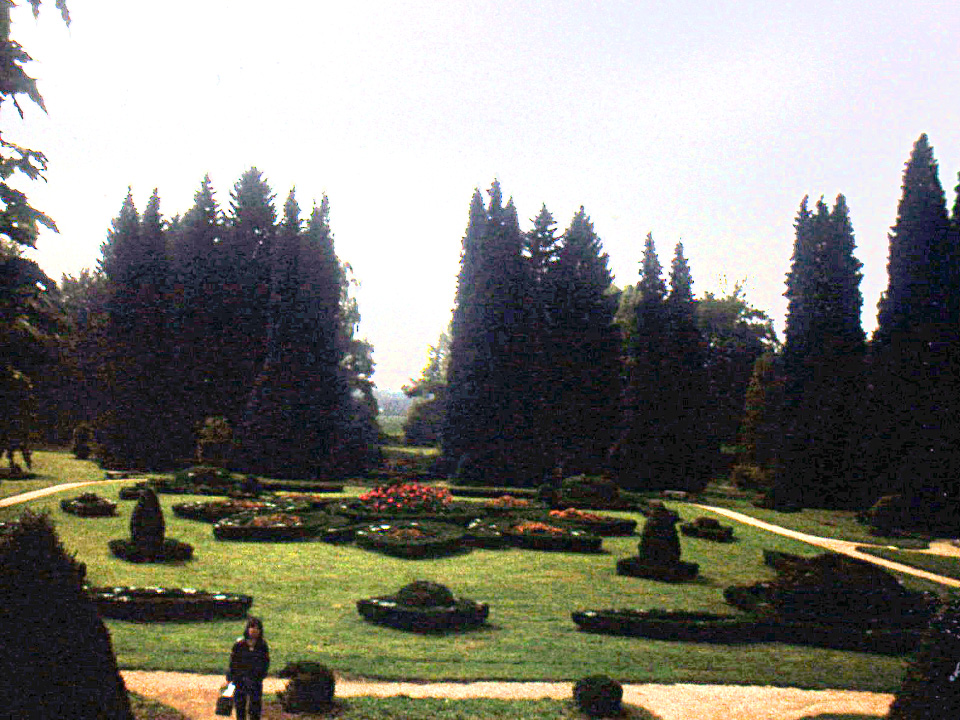 Volčji potok, arboretum, 1986